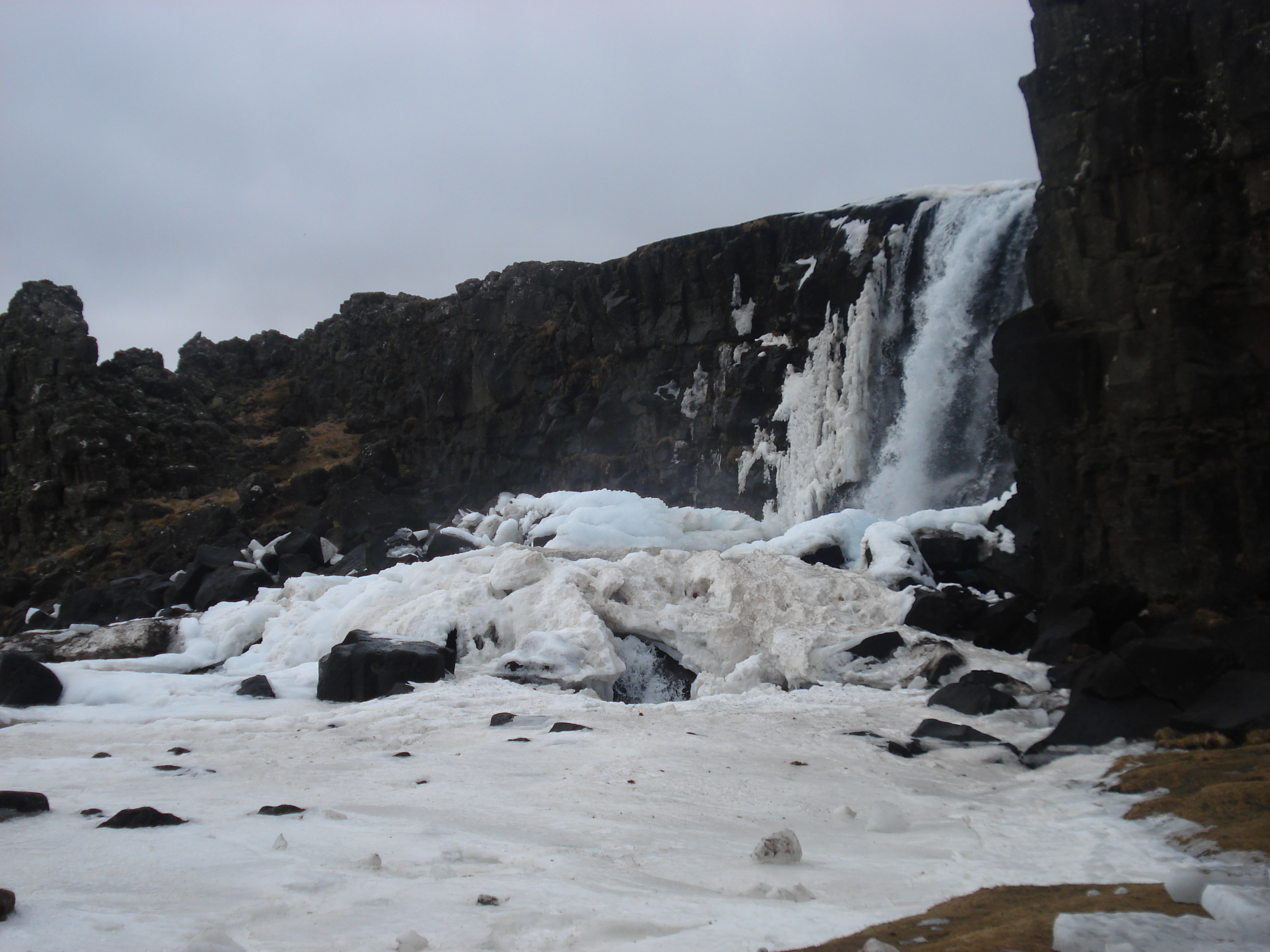 The waterfall Öxarárfoss in winter.